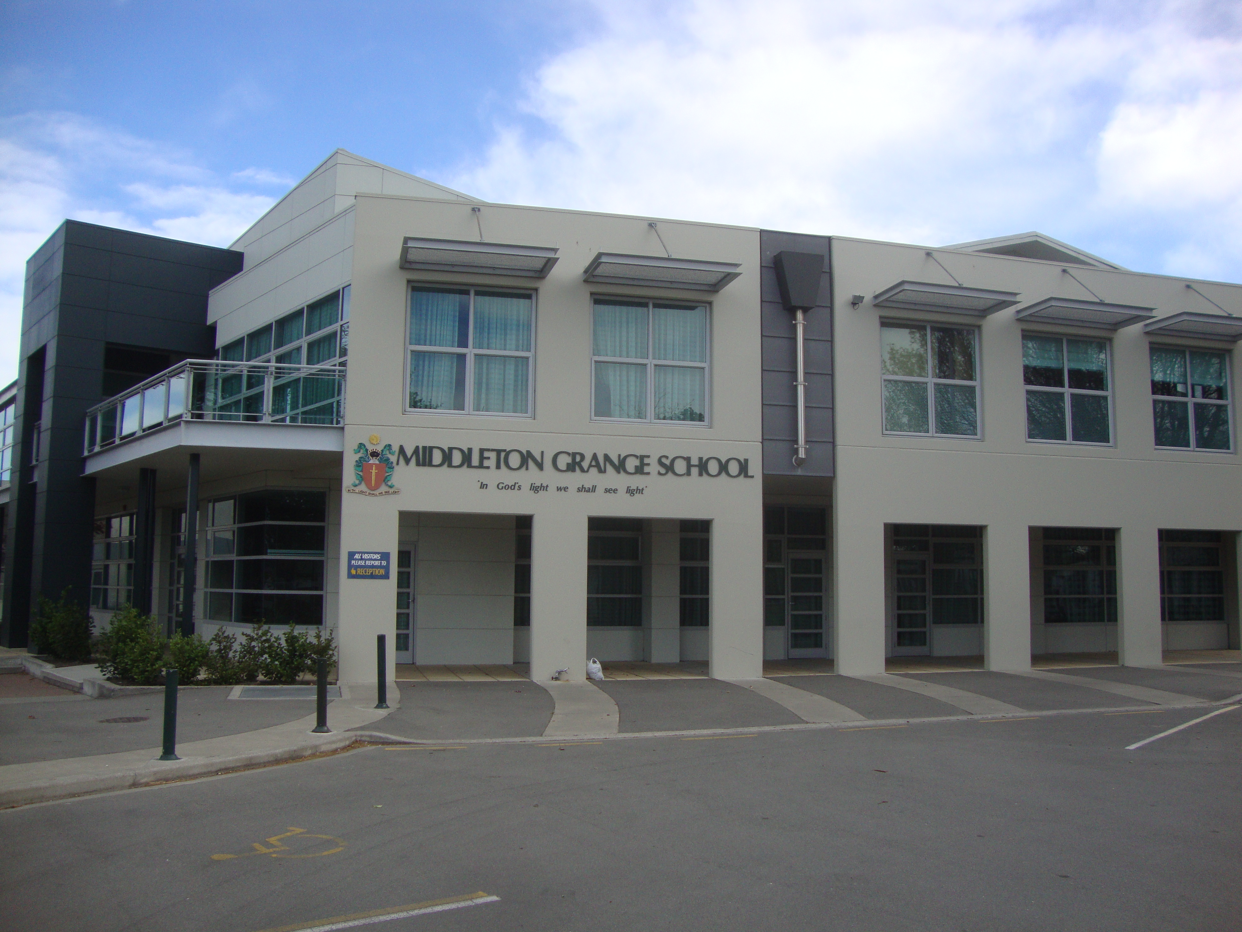 Middleton Grange School in October 2012.